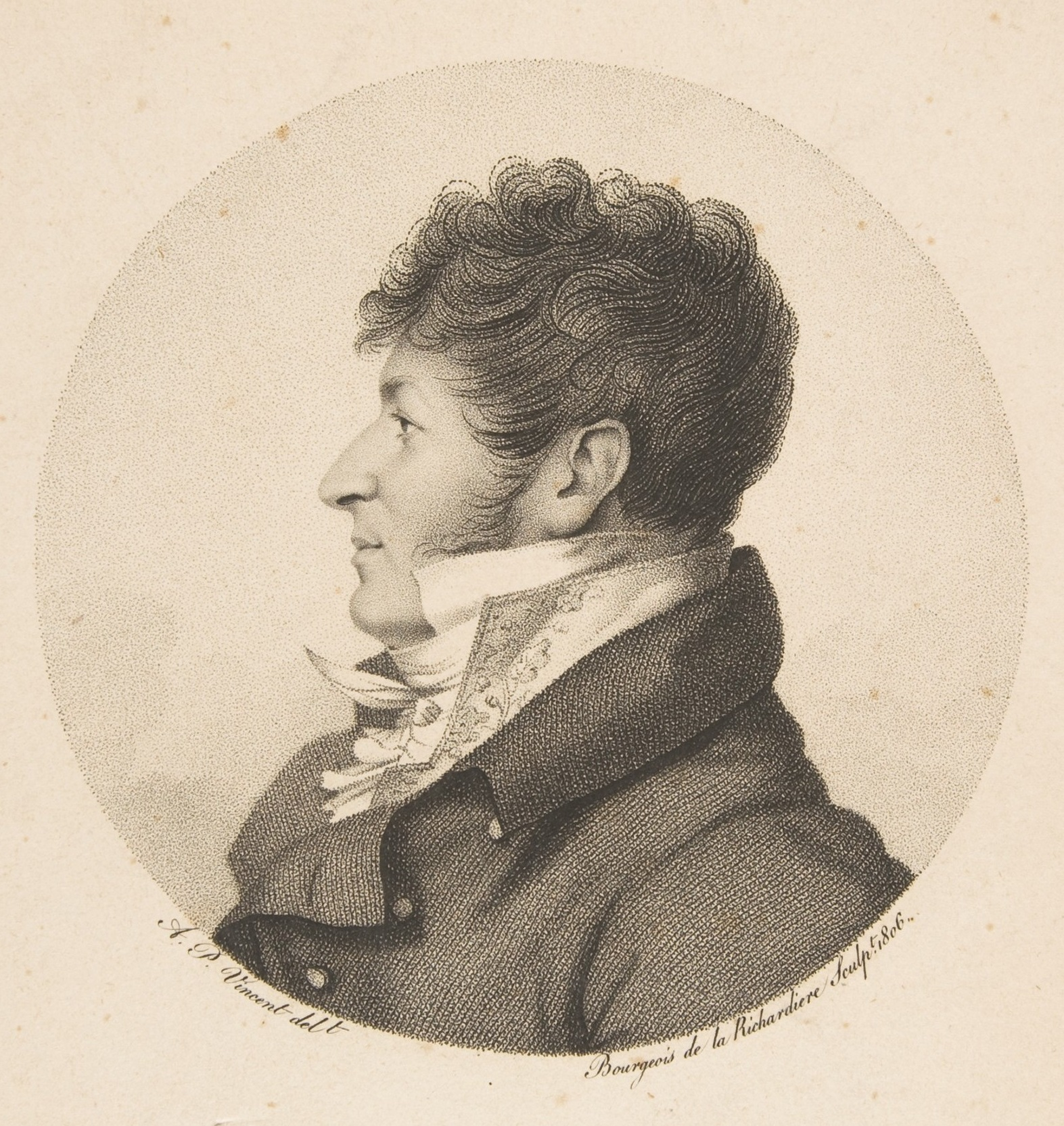 Portrait of the French composer and singing master Charles-Henri Plantade